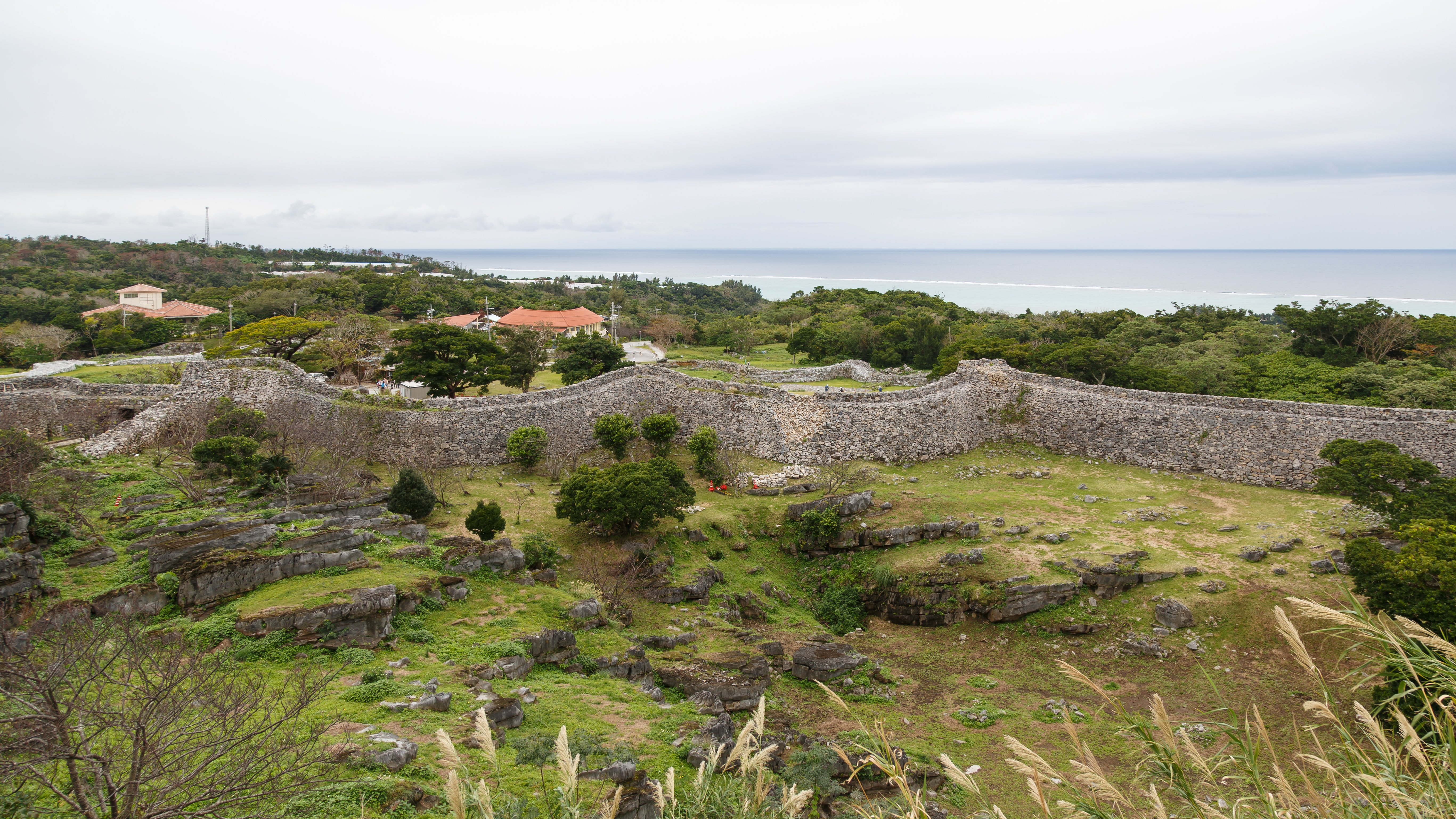 Nakijin, Okinawa, Japan: Walls of Nakijin Castle.